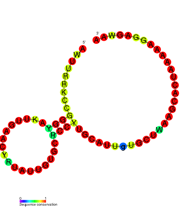 Conserved secondary structure of SAM-V riboswitch.